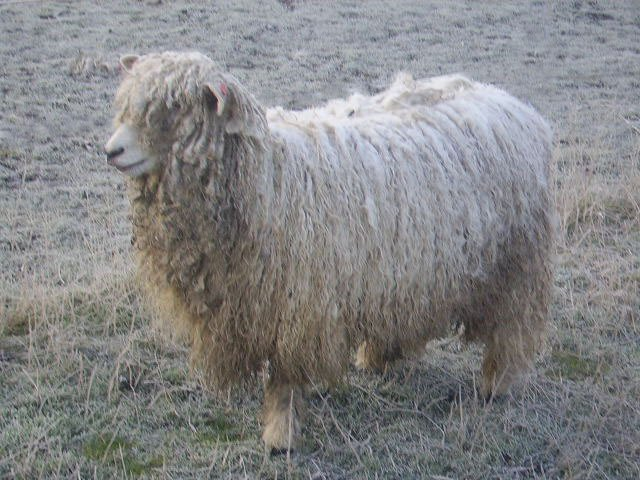 Bain Valley Fay, Lincoln Longwool Lamb born 24th January 2007.